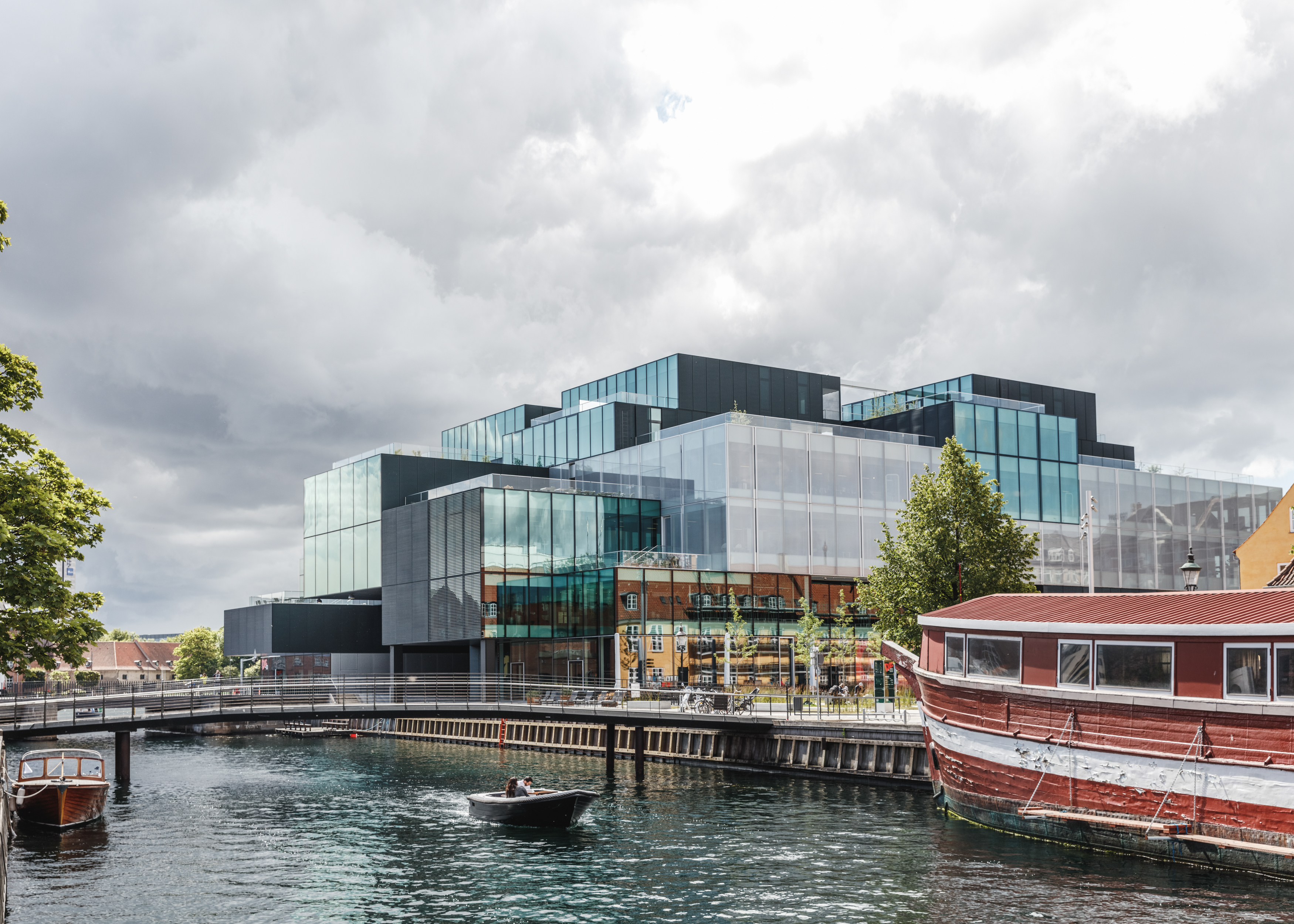 The Danish Design Centre is located in BLOX, a hub for design, architecture and urban innovation in the heart of Copenhagen, Denmark